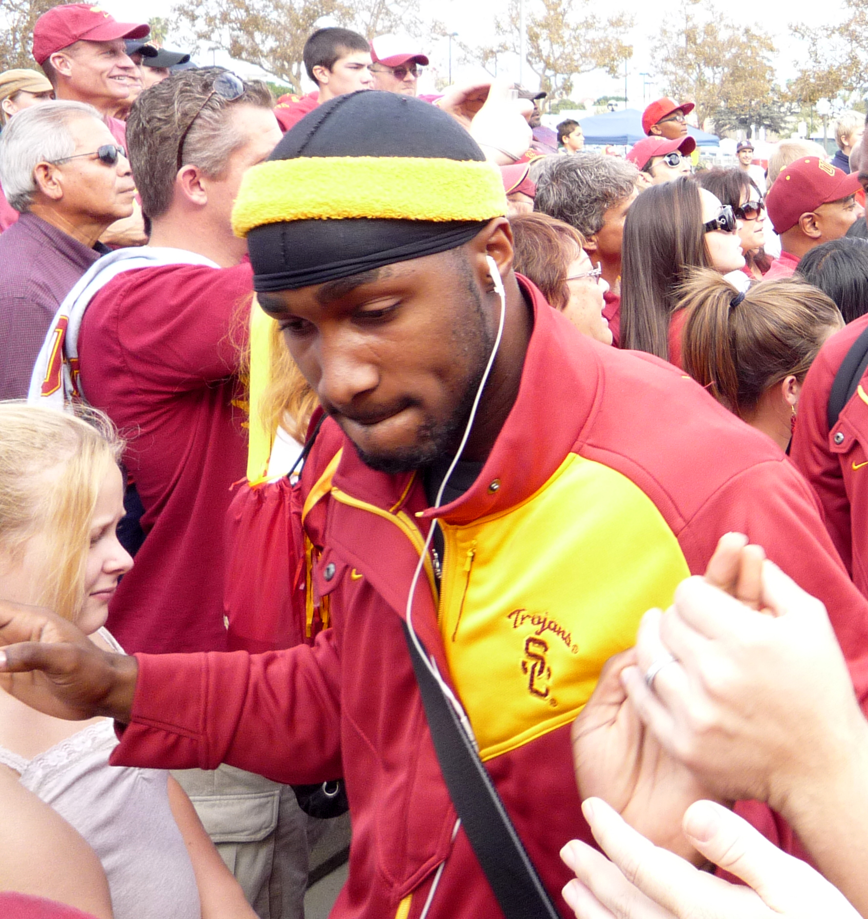 Receiver Ronald Johnson on the walk into the Los Angeles Memorial Coliseum before a USC football game.